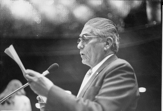 Afonso Sancho (1922-2005) foi senador pelo estado do Ceará, tomou posse em 1988, em virtude do falecimento do senador Virgílio Távora, de cujo mandato era suplente, completando-o até 1990. Afonso Sancho faleceu aos 83 anos, em Fortaleza, Ceará.